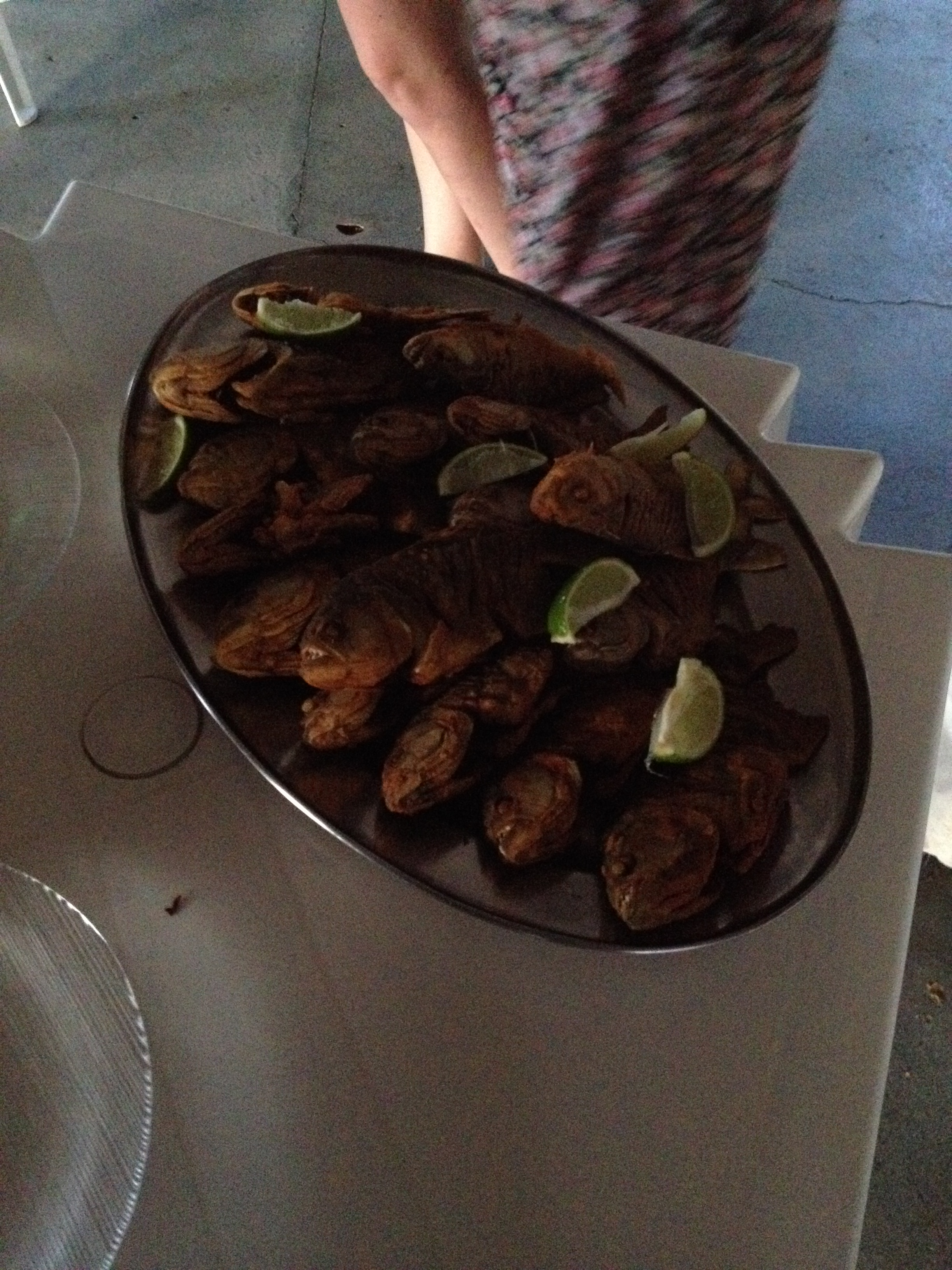 Fried piranhas, freshly fished from rivers in the Pantanal, Brazil.